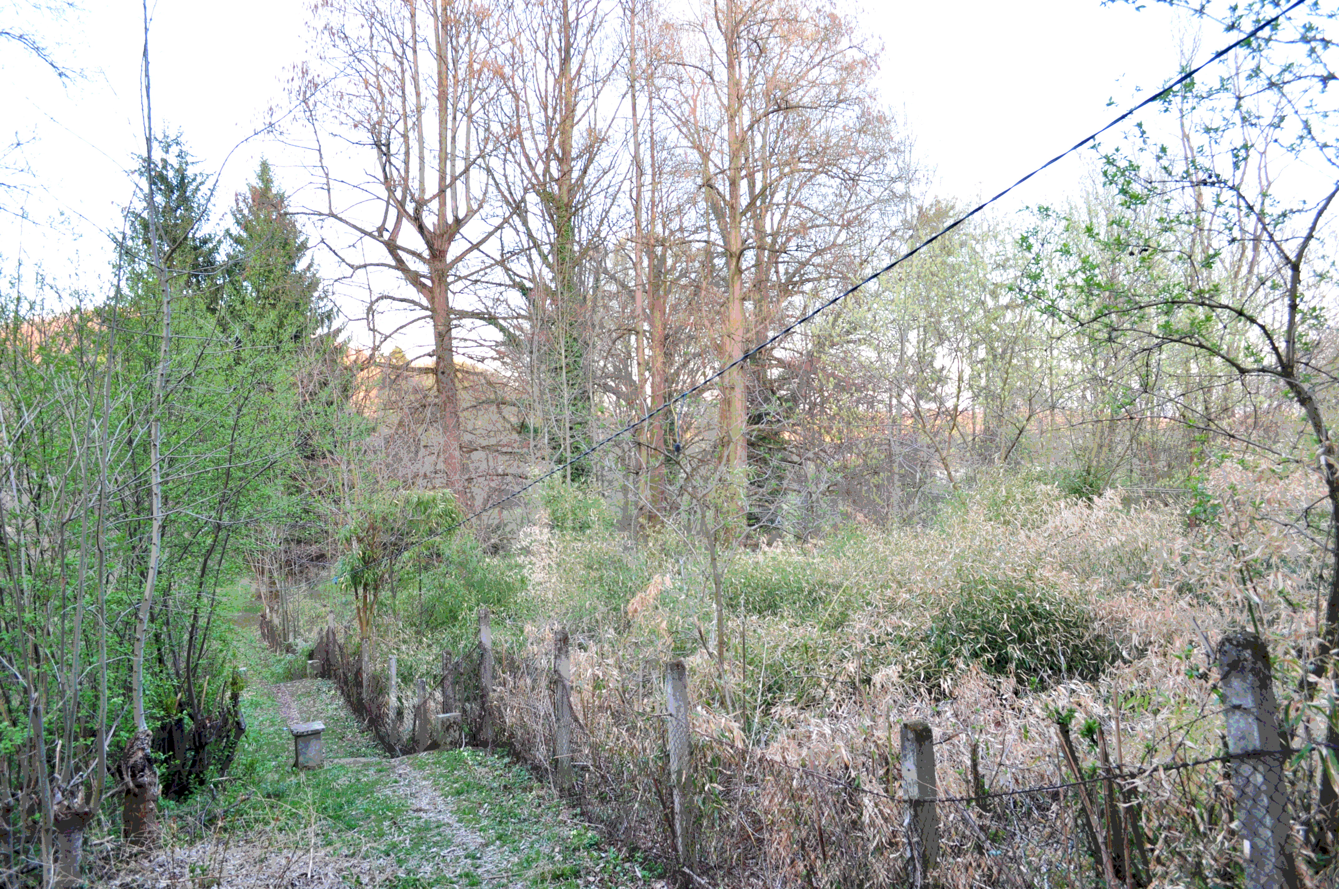 Klobosiski mansion and domain in Gurasada, Hunedoara county